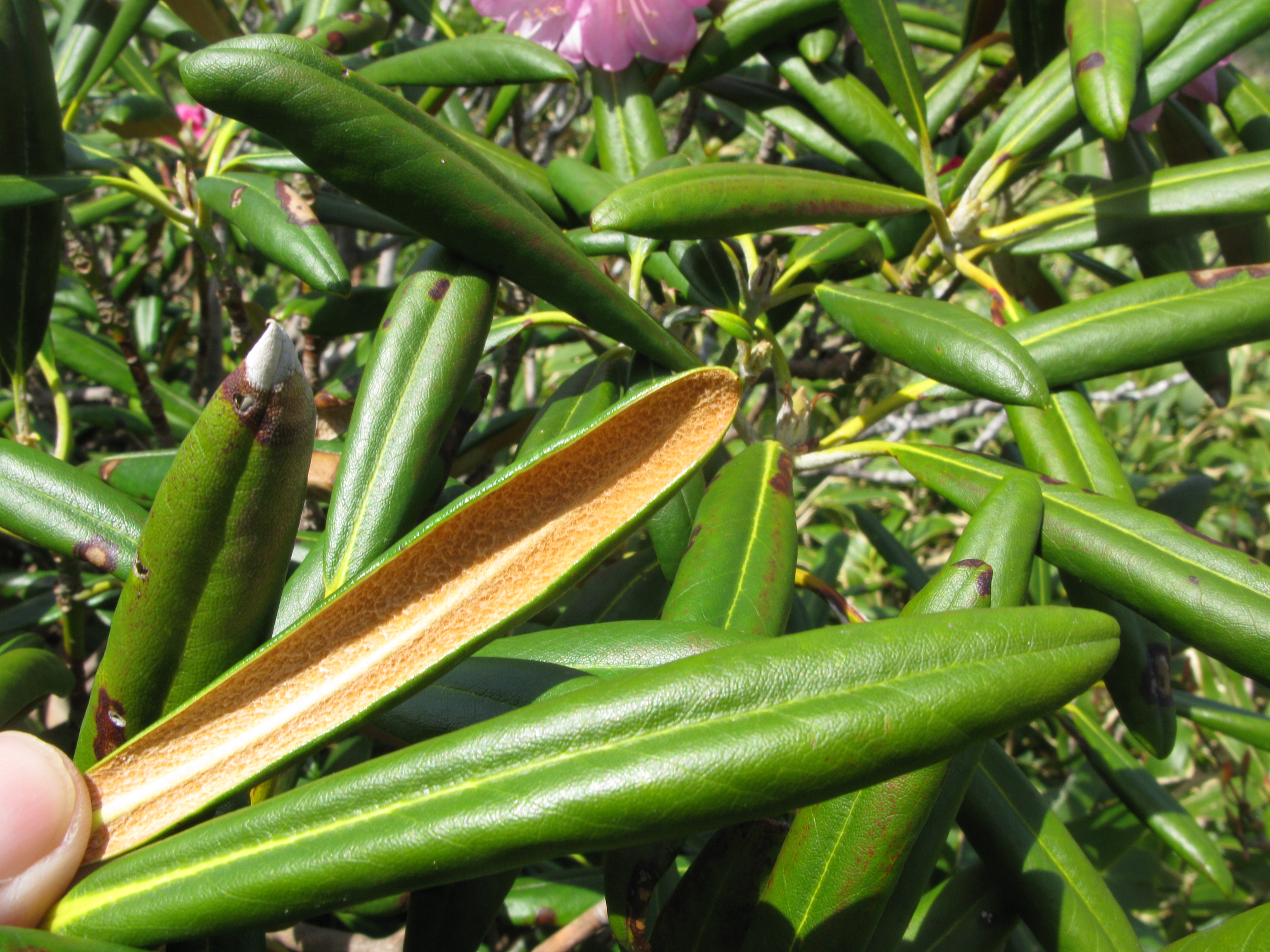 Rhododendron degronianum,Aizu area,Fukushima pref.,Japan